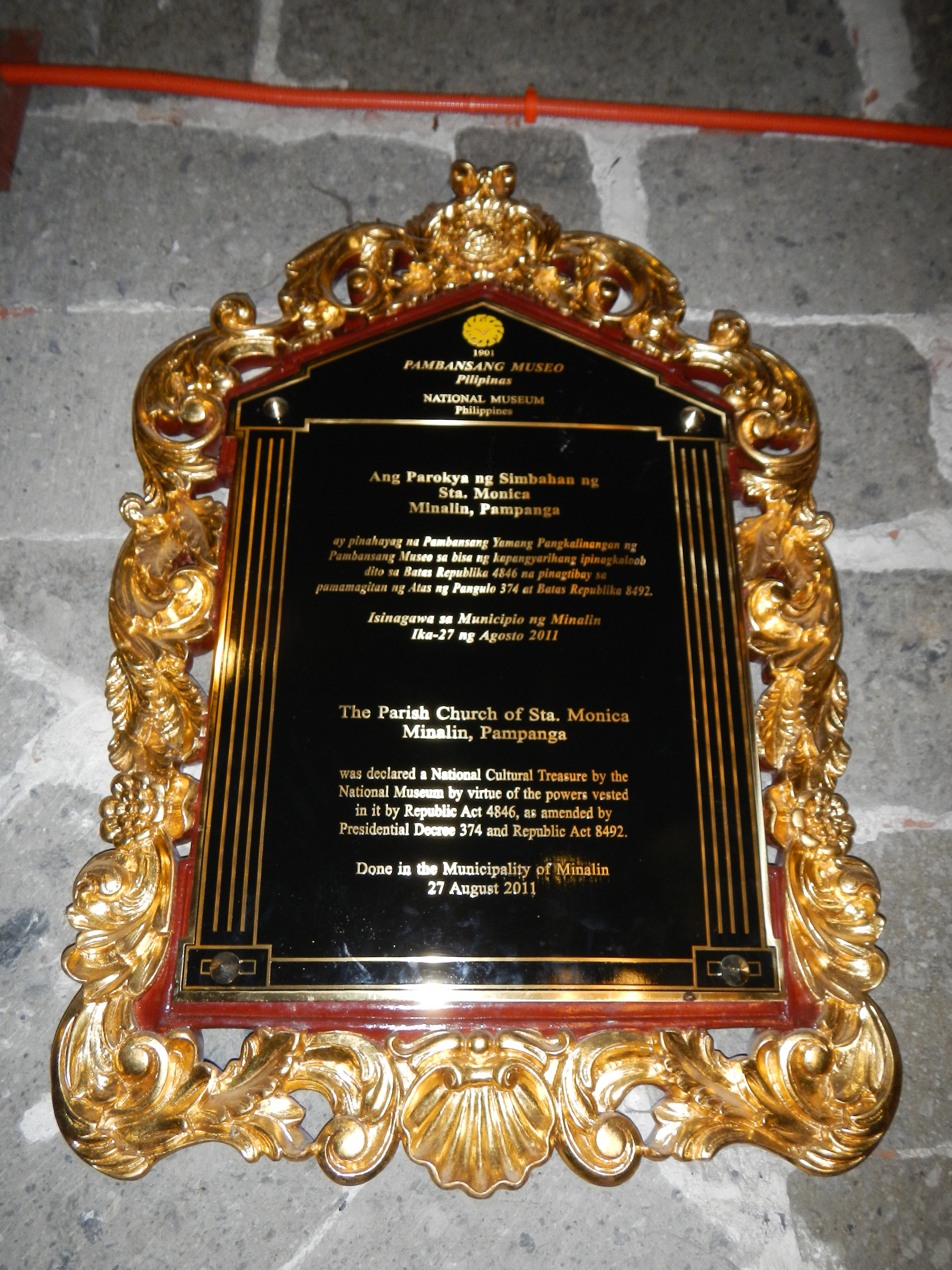 [1]The 1721 Santa Monica Parish Church, commonly known as the Minalin Church is a Baroque (heritage) Church, located in 2019 Minalin, Pampanga (San Nicolas). It is a Spanish-era church declared a National Cultural Treasure by the National Museum of the Philippines and the National Commission for Culture and the Arts (Philippines)